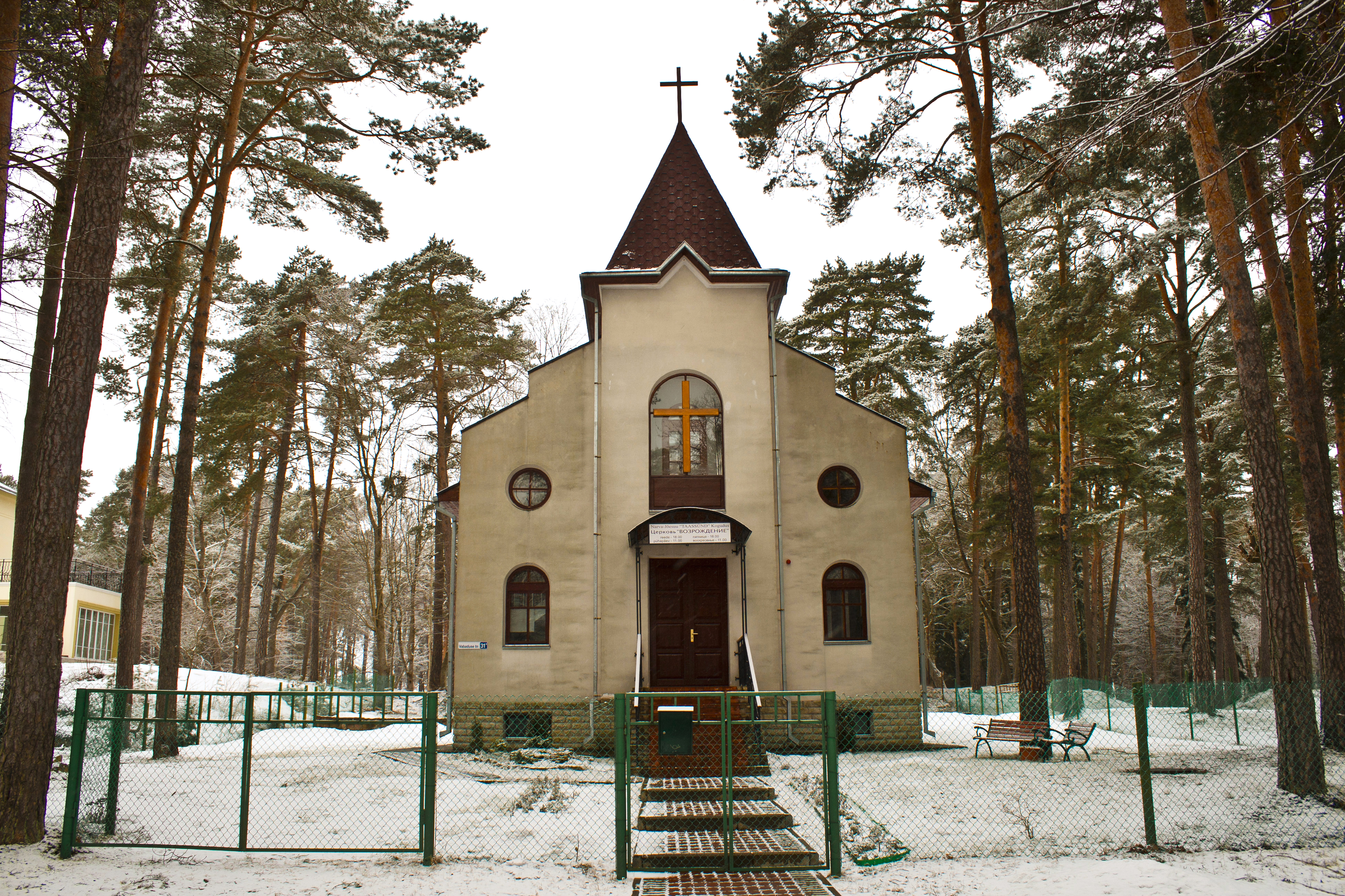 Narva-Jõesuu church